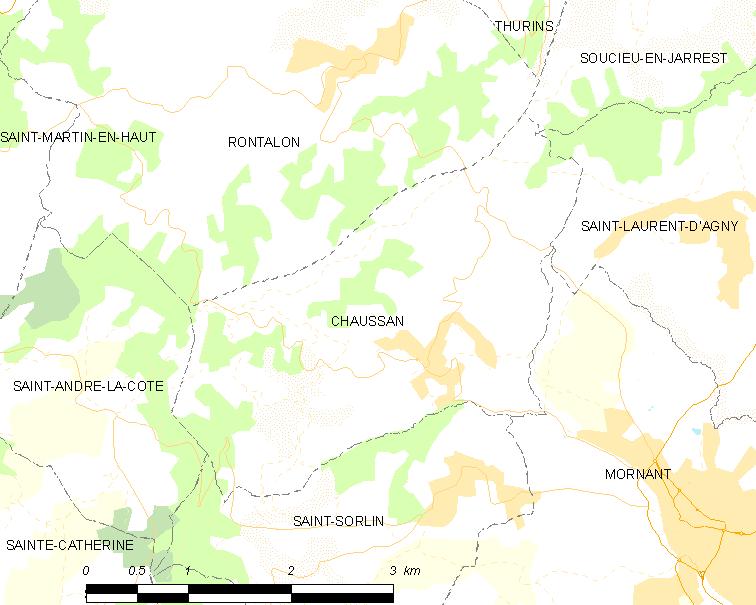 Map of French municipality